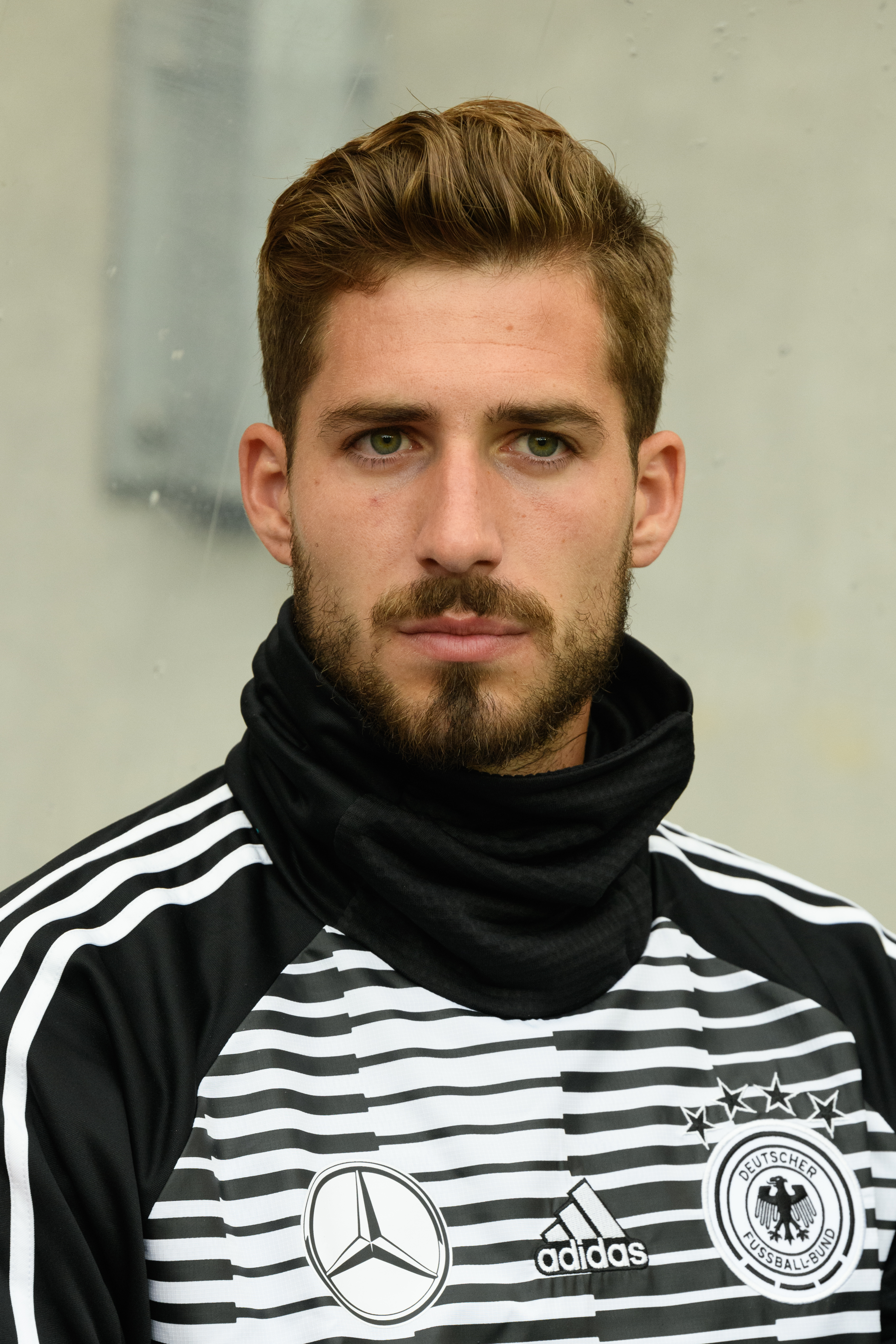 FIFA Friendly Match Austria vs. Germay 2018/06/02 in Klagenfurt/Woerthersee. Picture shows Kevin Trapp (GER).